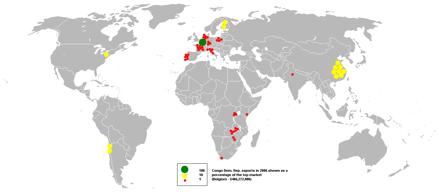 This bubble map shows the global distribution of Congo Democratic Republic's exports in 2006 as a percentage of the top market (Belgium - $466,272,000). This map is consistent with incomplete set of data too as long as the top producer is known. It resolves the accessibility issues faced by colour-coded maps that may not be properly rendered in old computer screens. Data was extracted on 28th September 2007 from Based on :Image:BlankMap-World.png